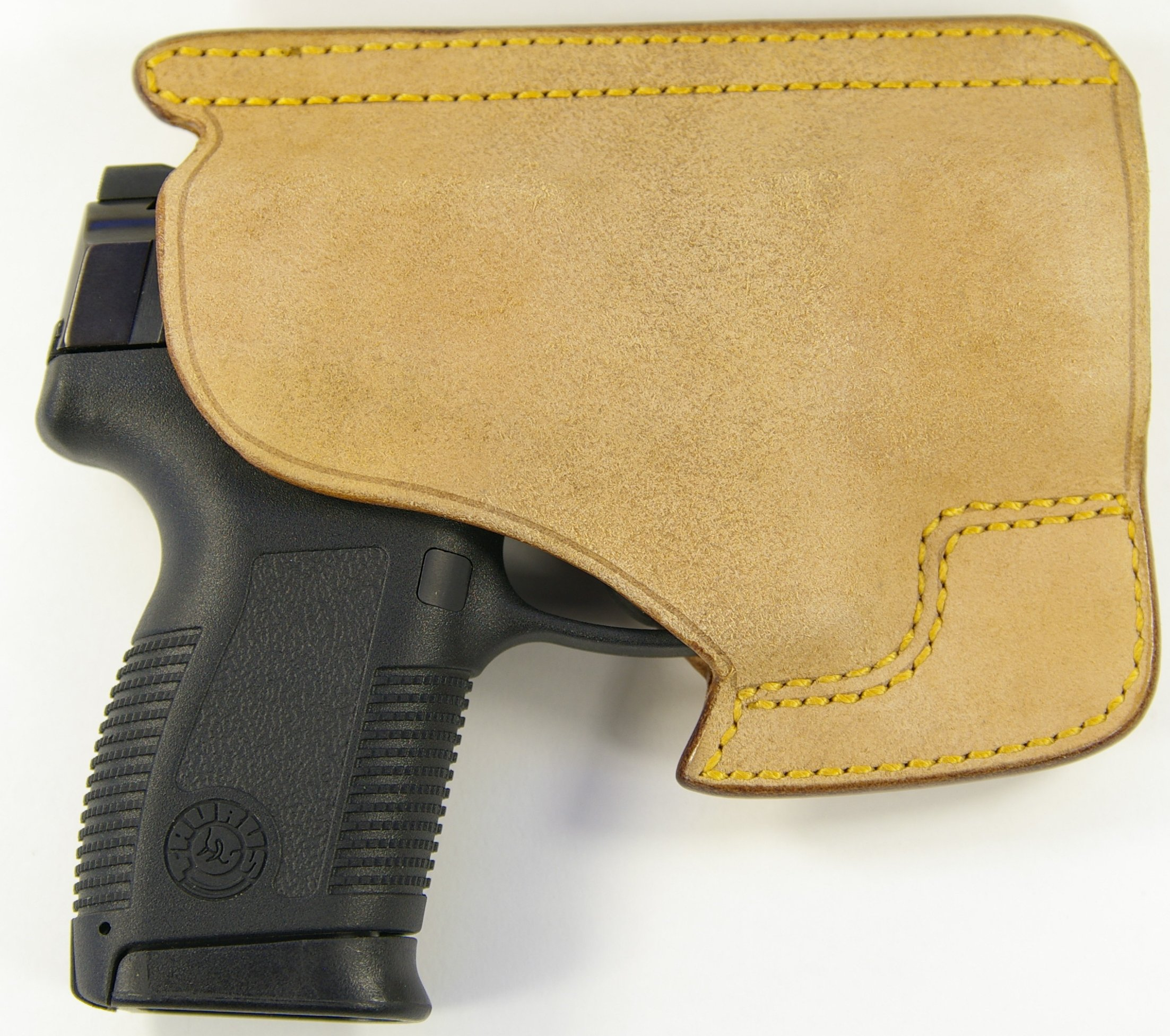 A Taurus PT145B .45ACP pistol in a Galco PH286 holster. The holster is made out of horse leather and made to fit into a pocket.